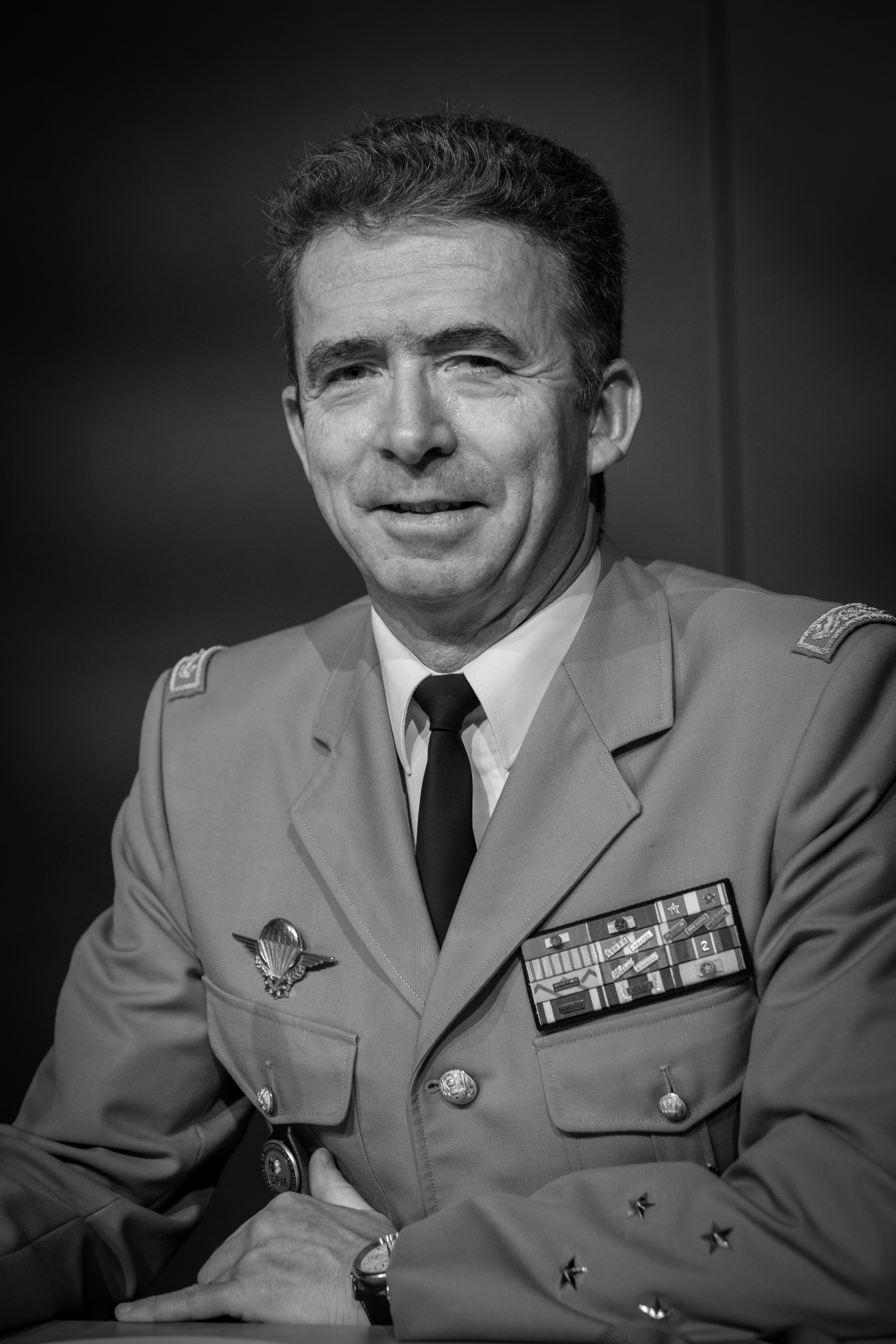 Christophe Gomart par Claude Truong-Ngoc septembre 2015.jpg